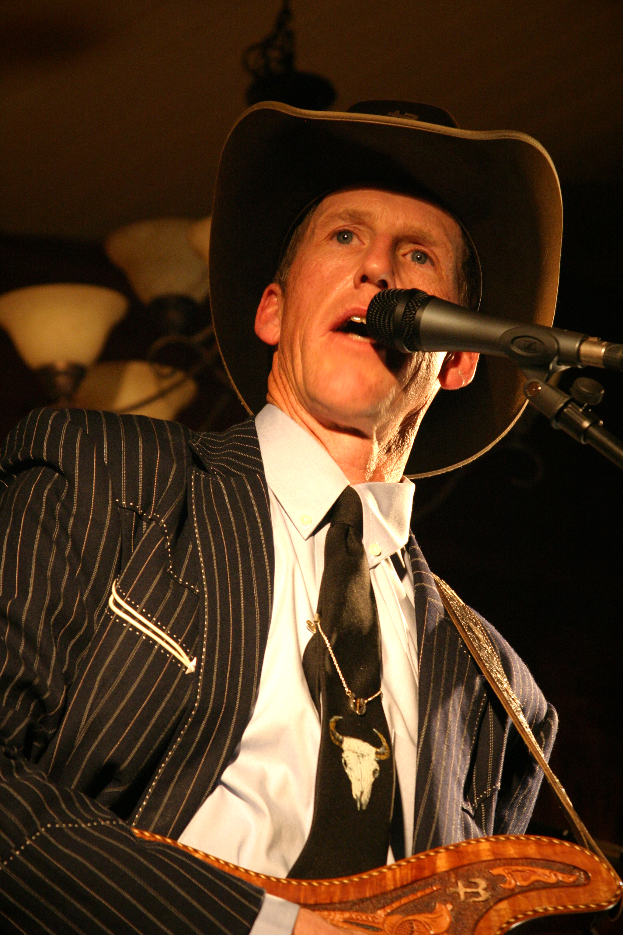 Wylie Gustafson, cowboy singer & yodeler